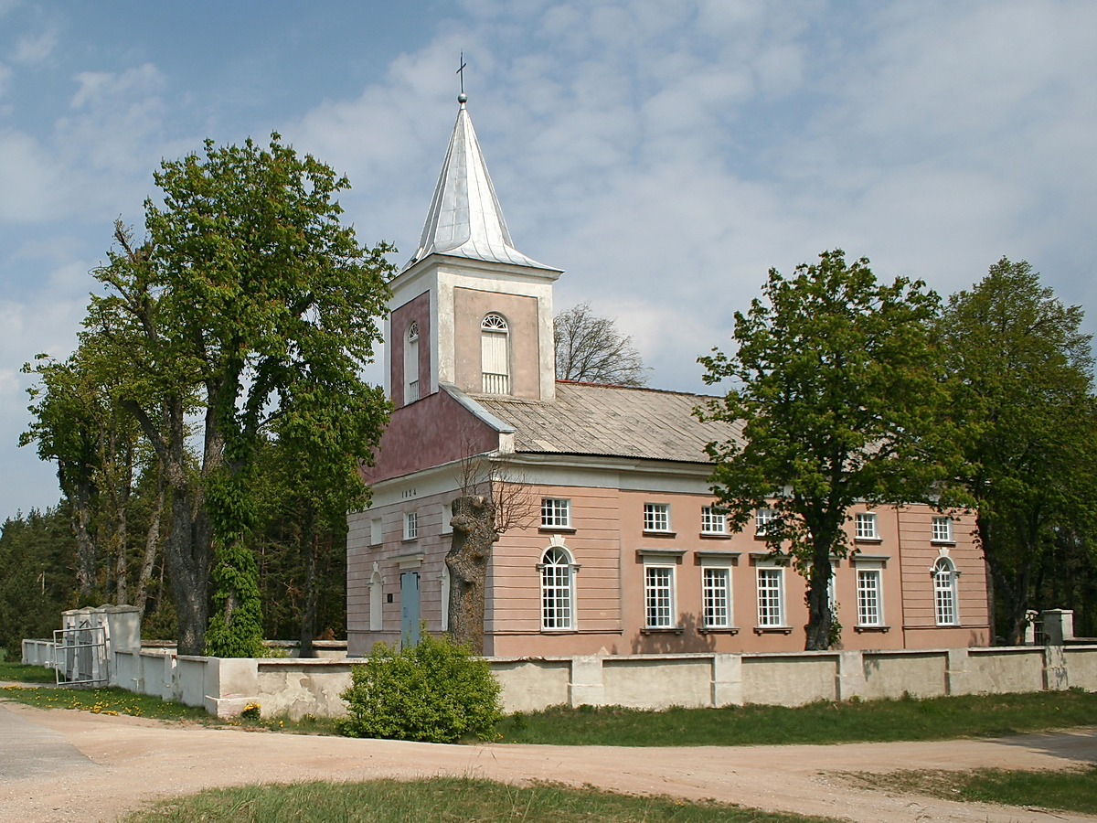 the church of Būtingė in Lithuania, built in 1924